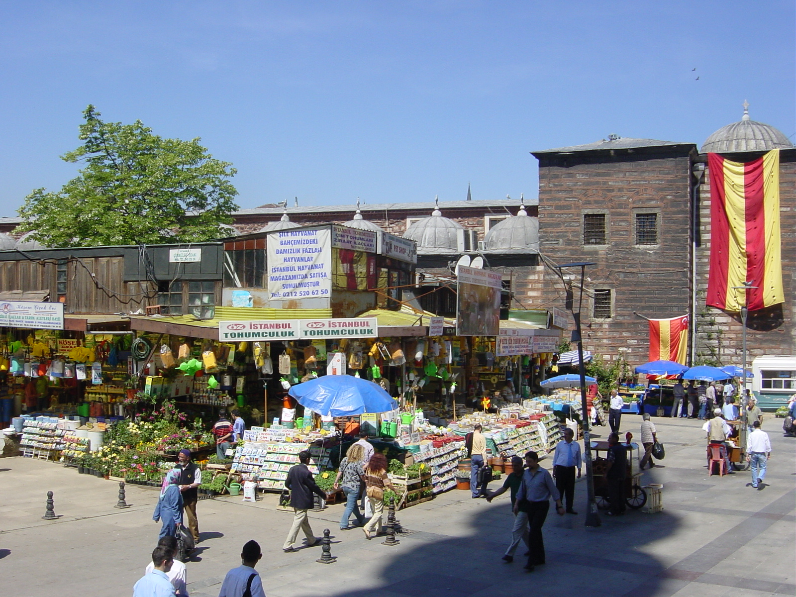 Outside the Spice bazaar (or "Egyptian Bazaar") in Istanbul. Picture by: Giovanni Dall'Orto, May 24 2006.